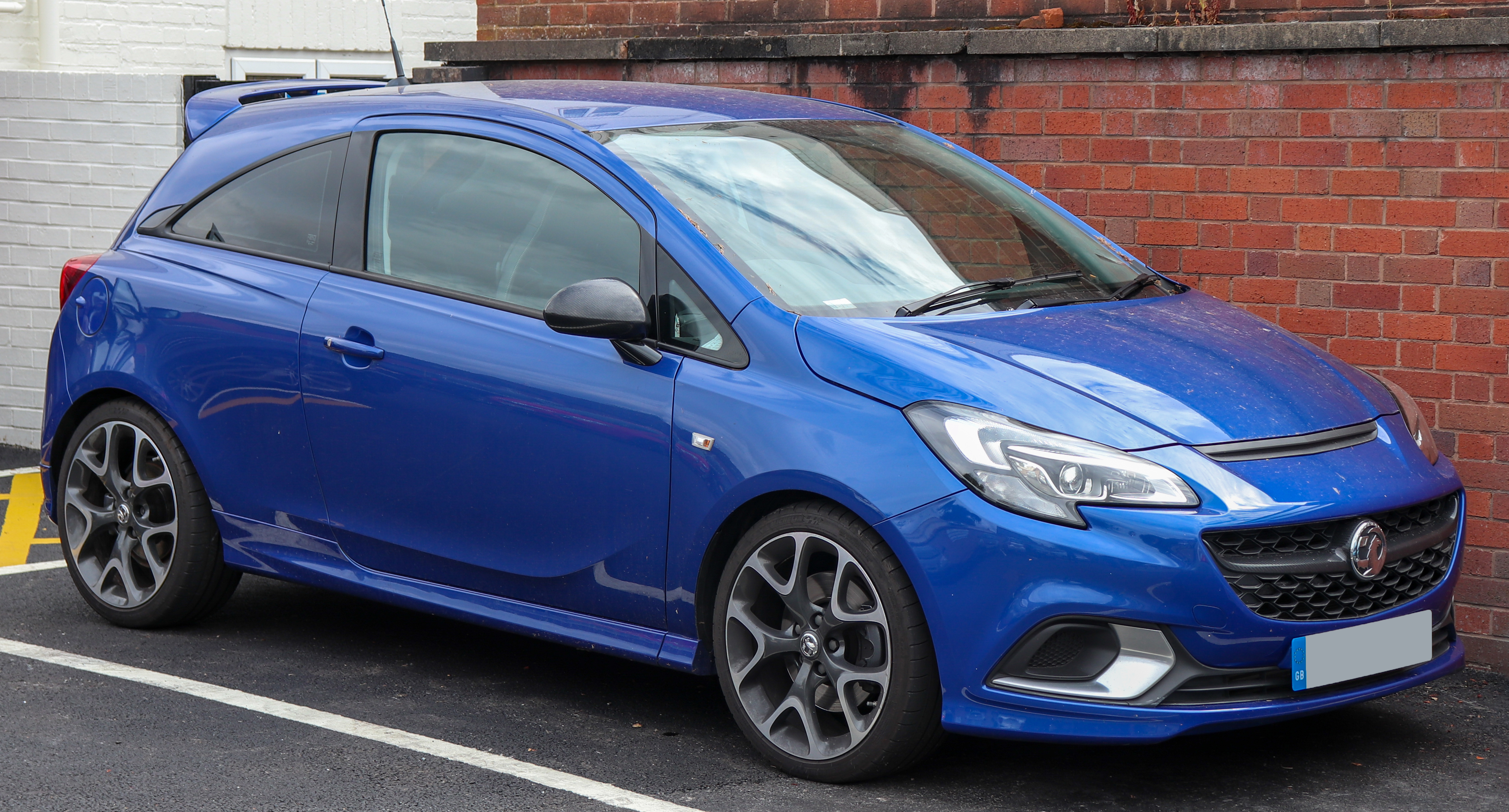 2015 Vauxhall Corsa VXR 1.6 Front Taken in Stratford-upon-Avon